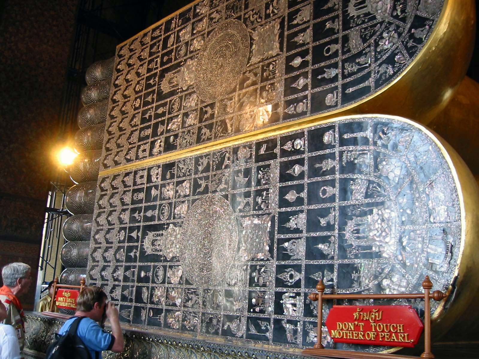 The feet of the Reclining Buddha in Wat Pho, Bangkok, Thailand